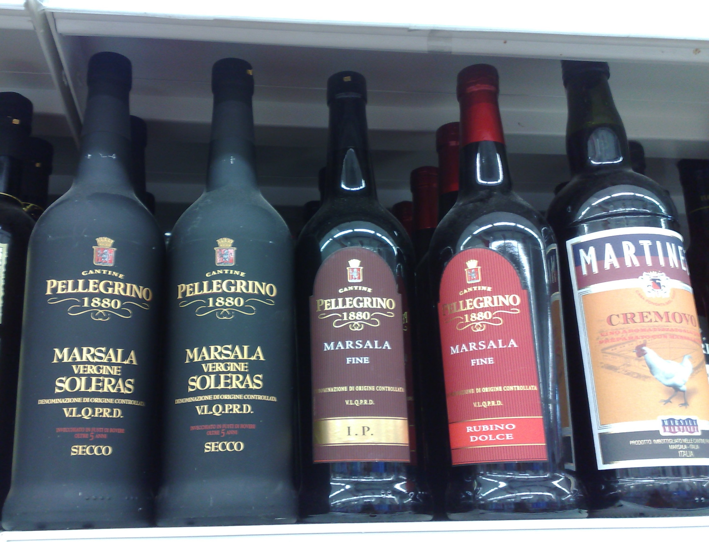 "Marsala" fortified wine, from Sicily